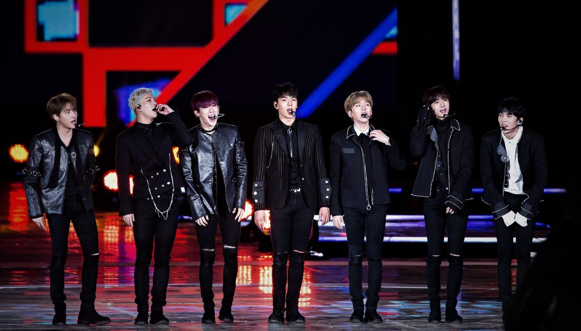 2017 Dream Concert in Pyeongchang